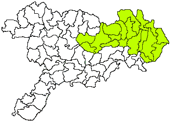 Tirupathi revenue division in Chittoor district